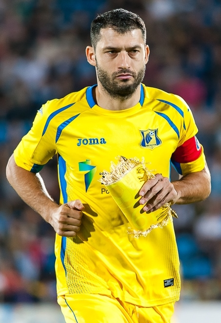 Alexandru Gațcan